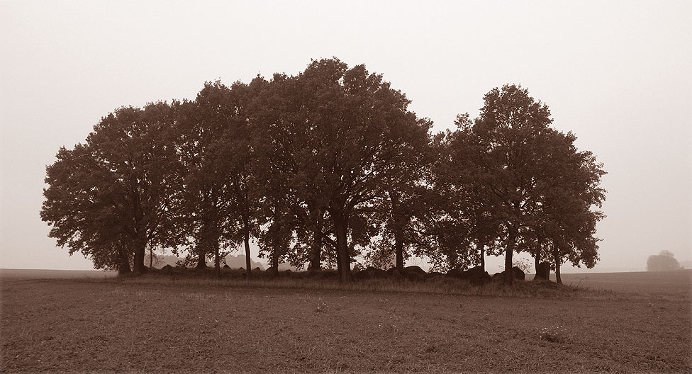 Drebenstedt Langbett